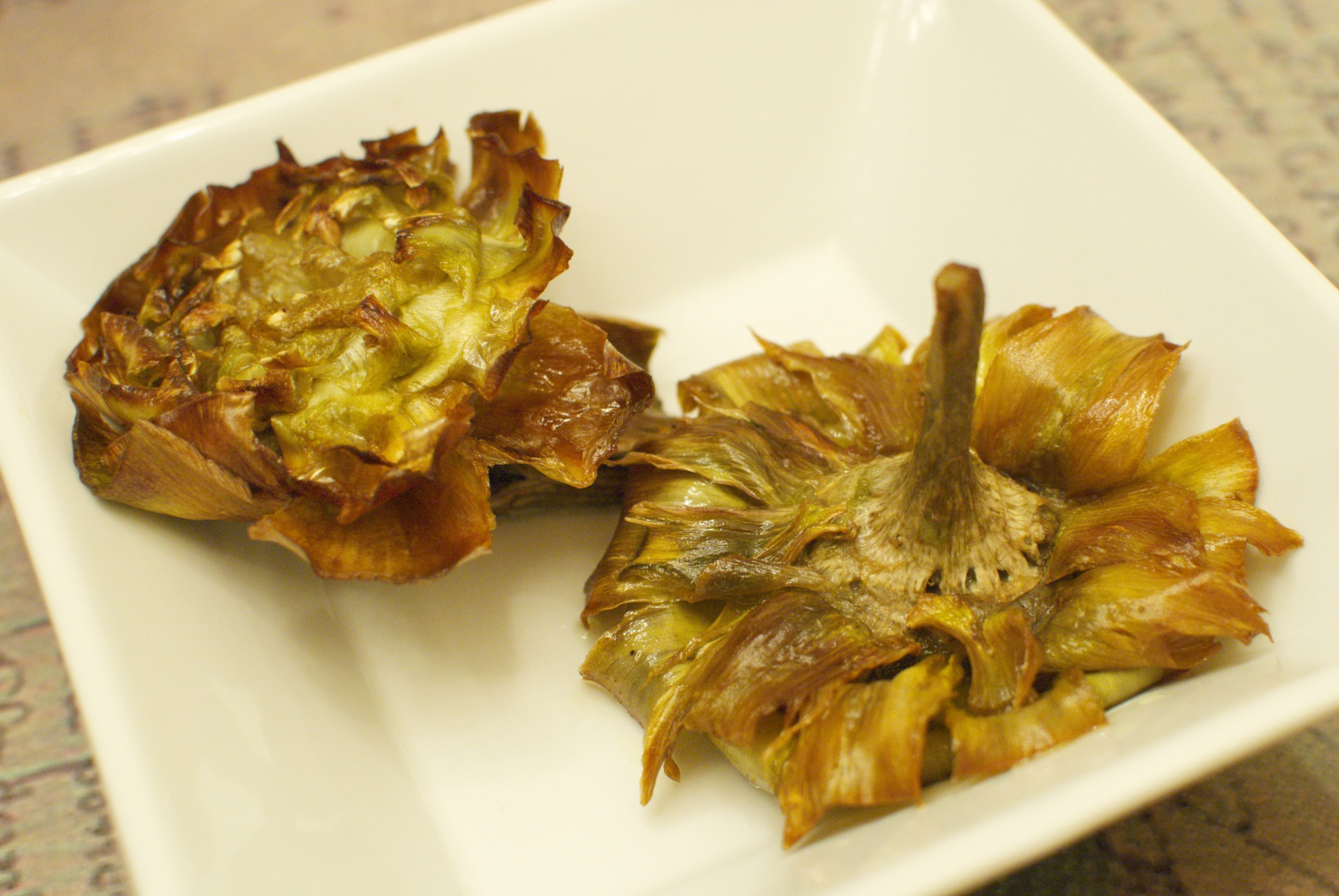 Jewish style artichokes, Jewish Roman Ghetto, Rome